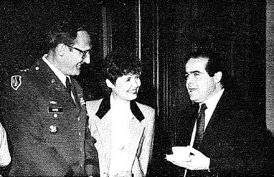 MG William Suter meeting Antonin Scalia in 1987